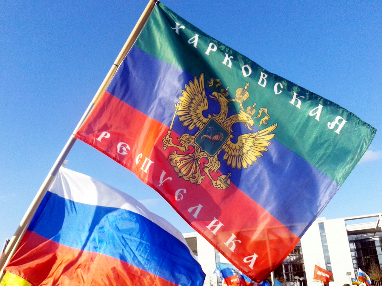 Flag of Kharkov People's Republic, seen on a demonstration in Berlin in 2015, on February, 28th